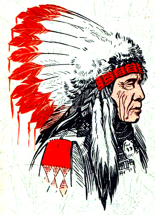 The logo for the Anderson Packers basketball team